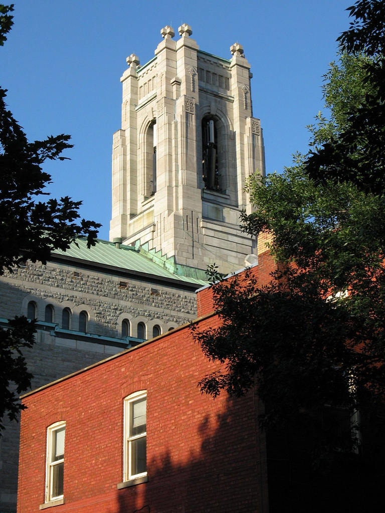 Saint Esprit Church in Rosemont